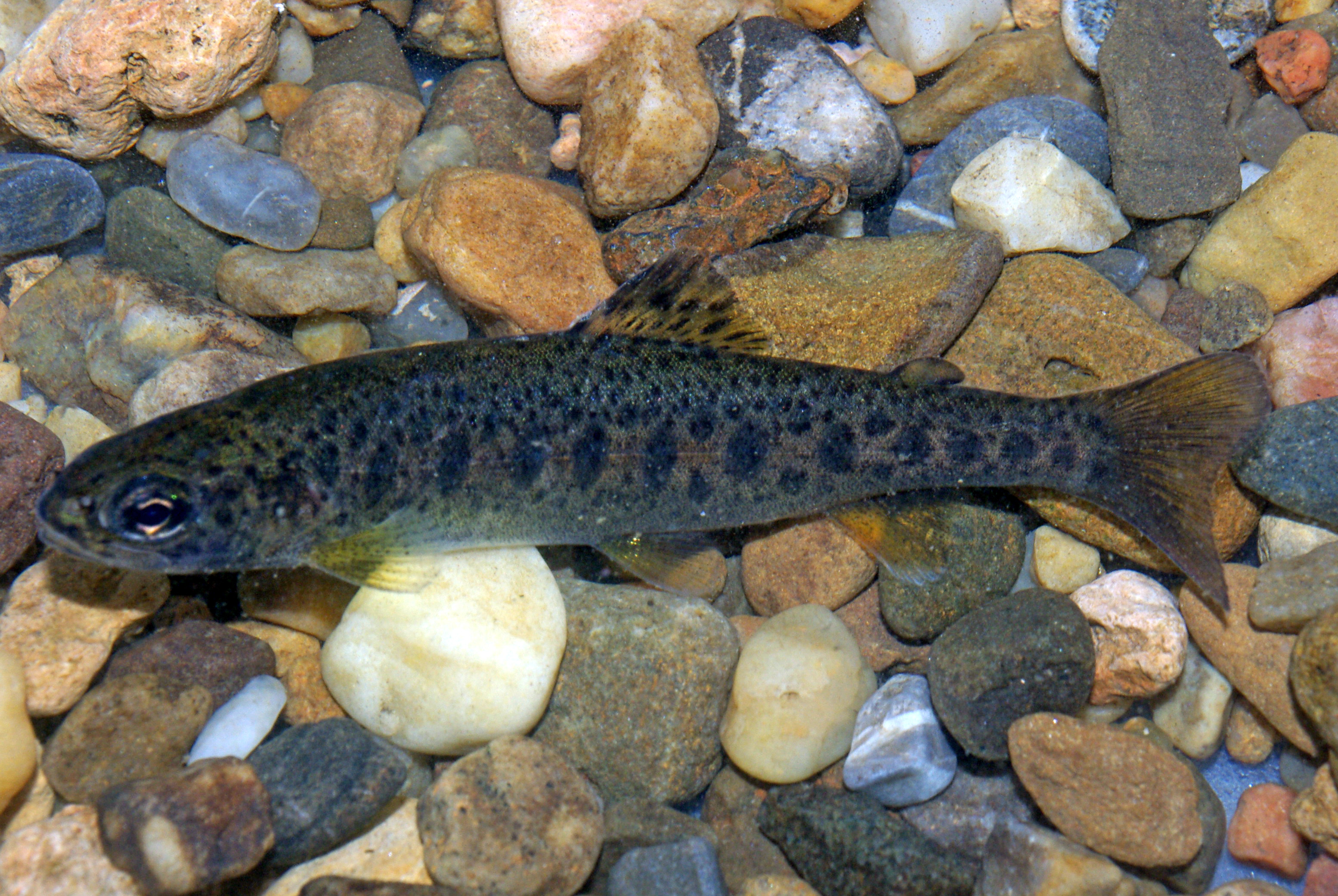 Rainbow trout (Oncorhynchus mykiss) in river Bernesga basin. León (Spain).